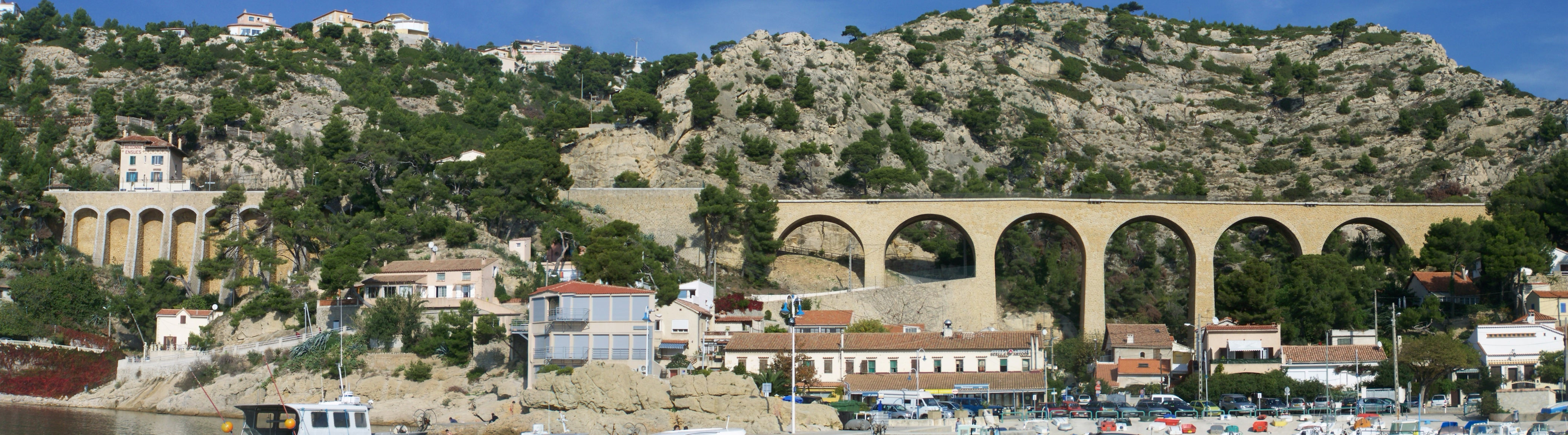 Panoramic of la Redonne village (in Bouches-du-Rhône, France), crossed by the Côte bleue railway line, whose station stands on the left.